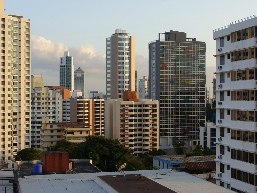 Cangrejo Neighbordhood